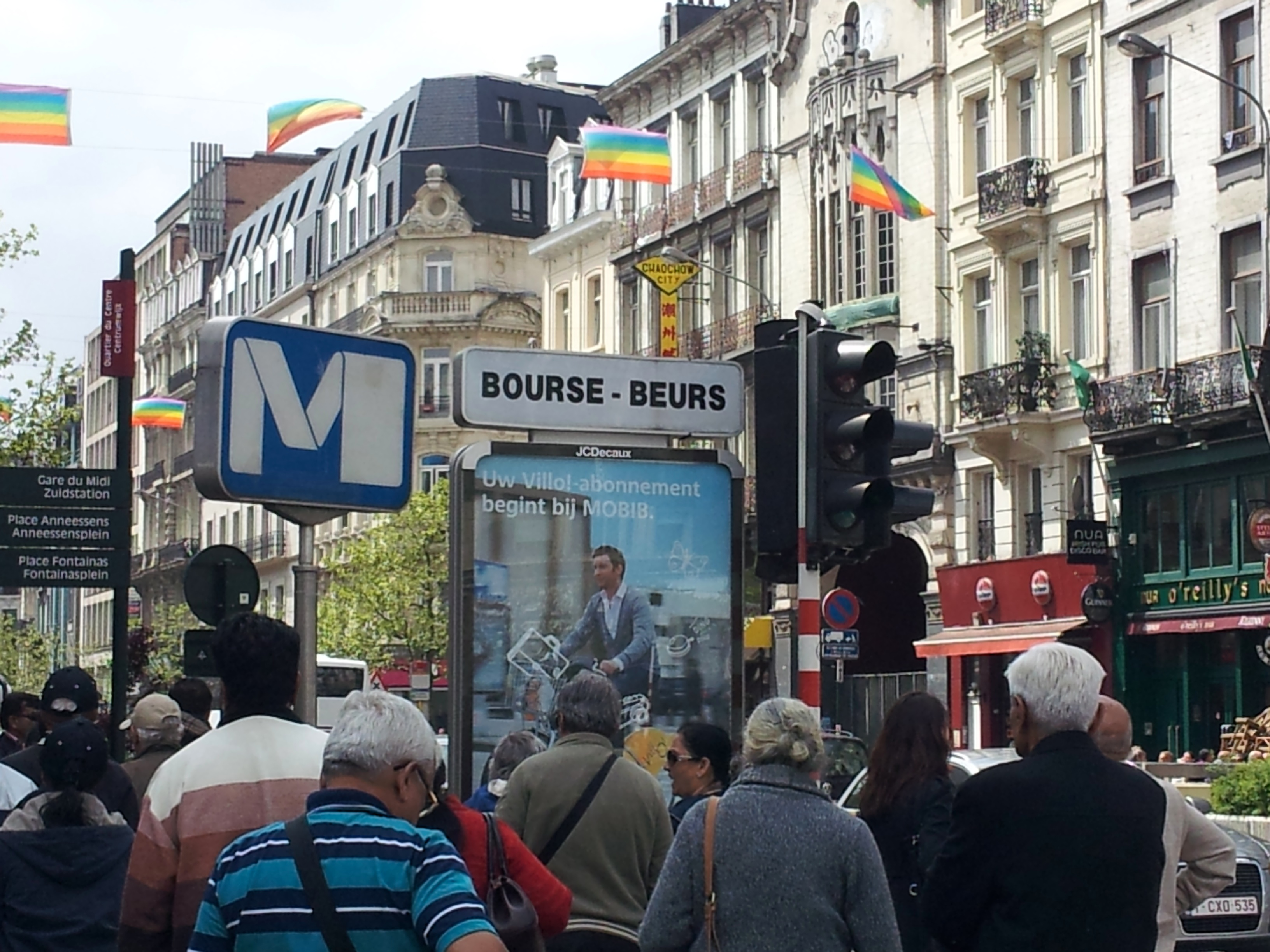 Entrance to the Bourse-Beurs metro tram station on Boulevard Anspach/Anspachlaan in Brussels. Rainbow pride flags above the street are in preparation for a gay pride march.